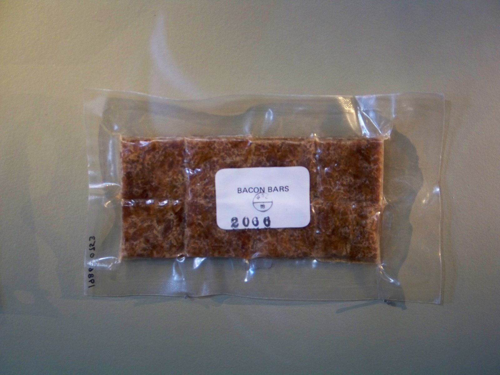 Freeze-dried bacon bars. Space food in the Smithsonian Museum, Washington, D.C., USA